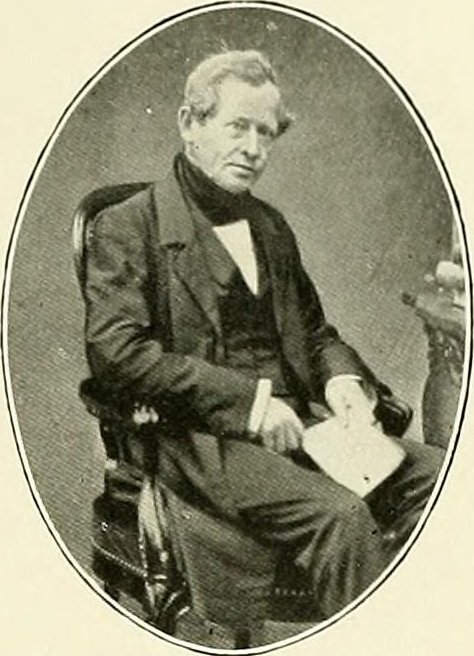 Portrait of the Swiss botanist Carl Friedrich Meissner (1800-1874)